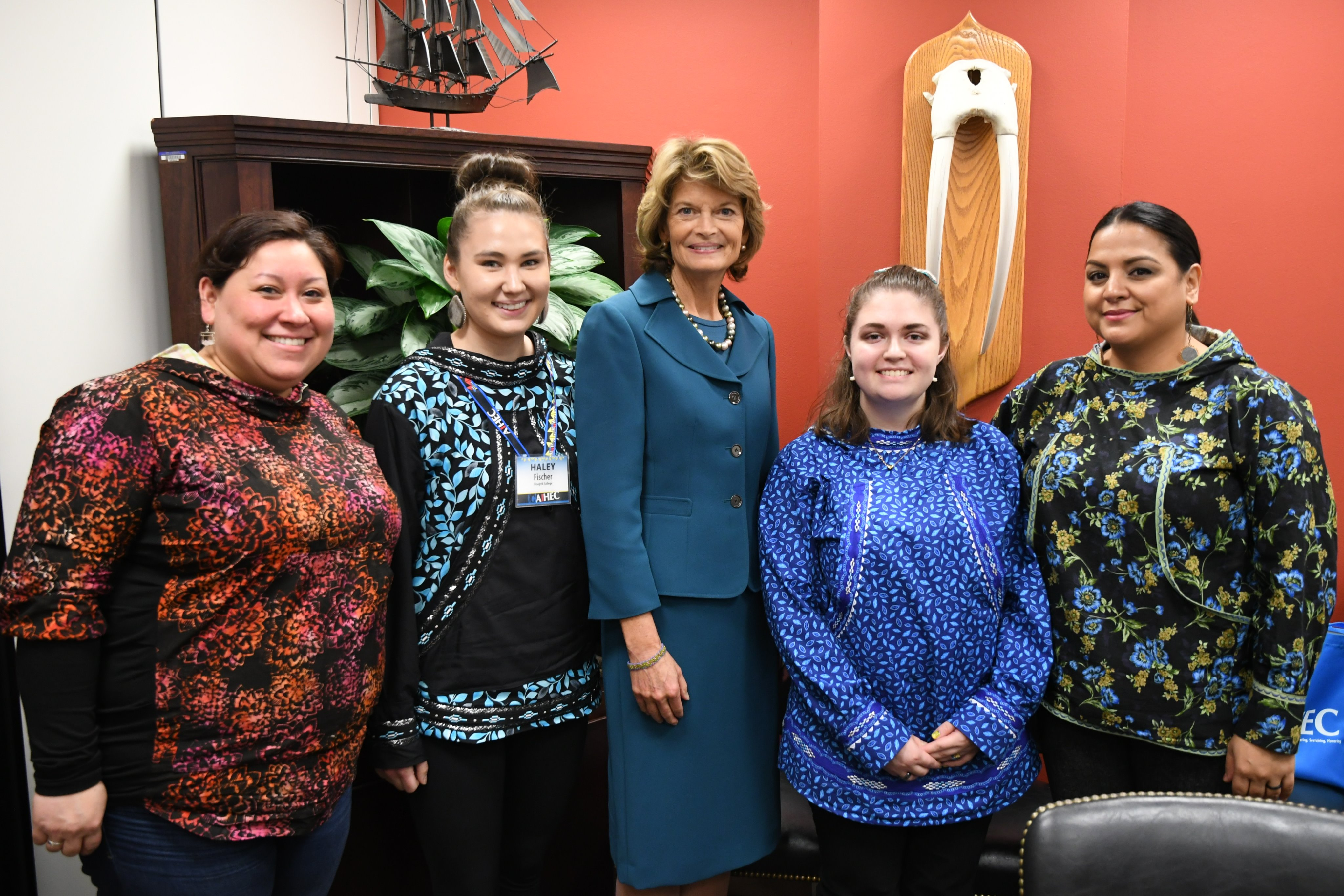 .@Ilisagvik College is the northernmost accredited community college in the U.S. & Alaska’s sole Tribal College. I sat down w/ students of Iḷisaġvik to hear firsthand the positive impact that receiving a higher education from an Indigenous institution is having on their lives. The students shared how valuable it is for them to have the opportunity to be immersed in and supported by their Inupiaq culture. As a long-time supporter of Tribal Colleges and also preserving Alaska Native culture, this type of feedback is truly encouraging.